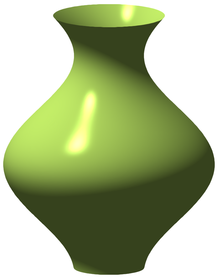 Illustration of a surface of revolution